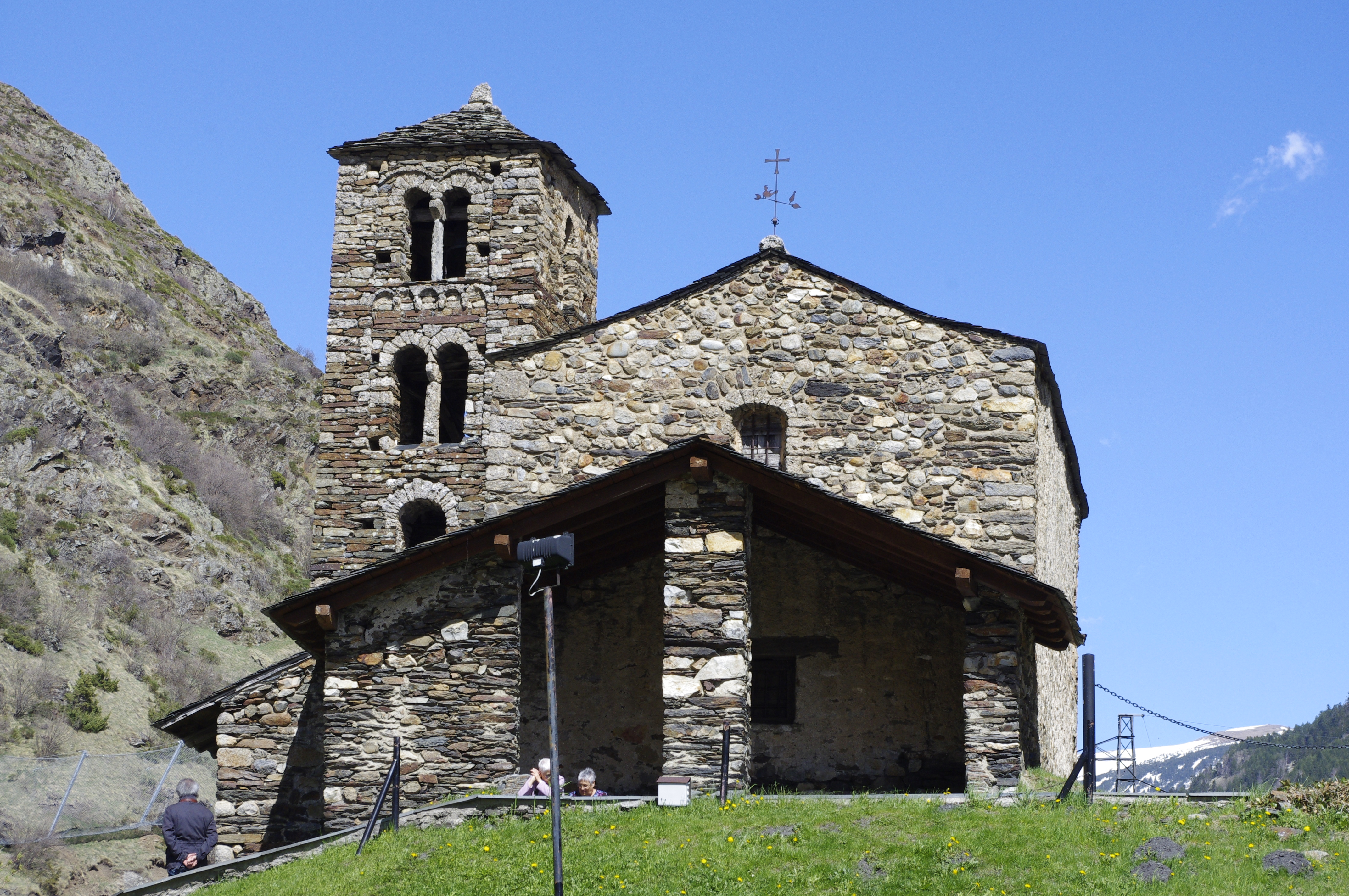 Chapel San Joan in Canillo, Andorra